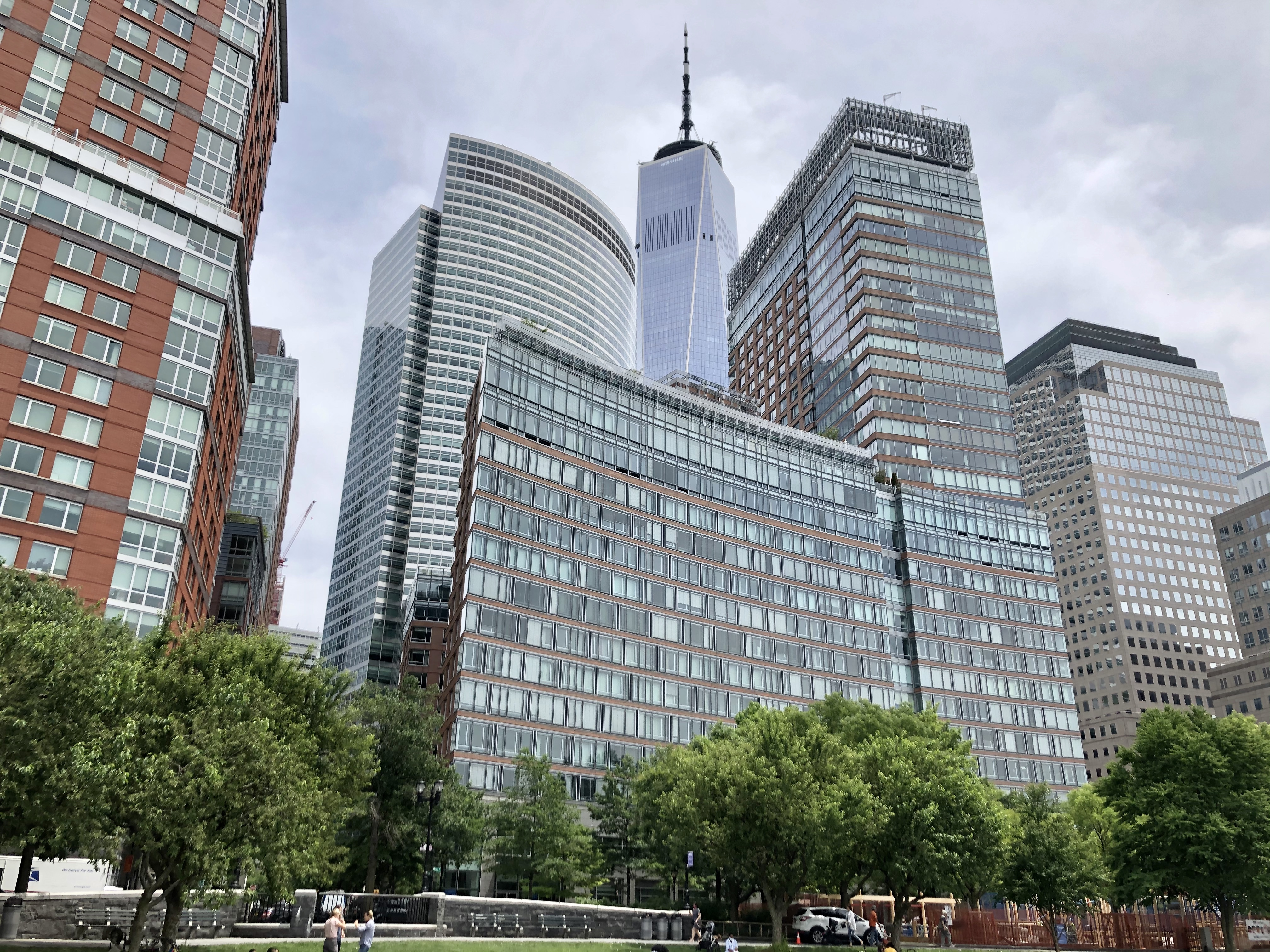 Battery Park City in June 2020. Photo by Chris6d.